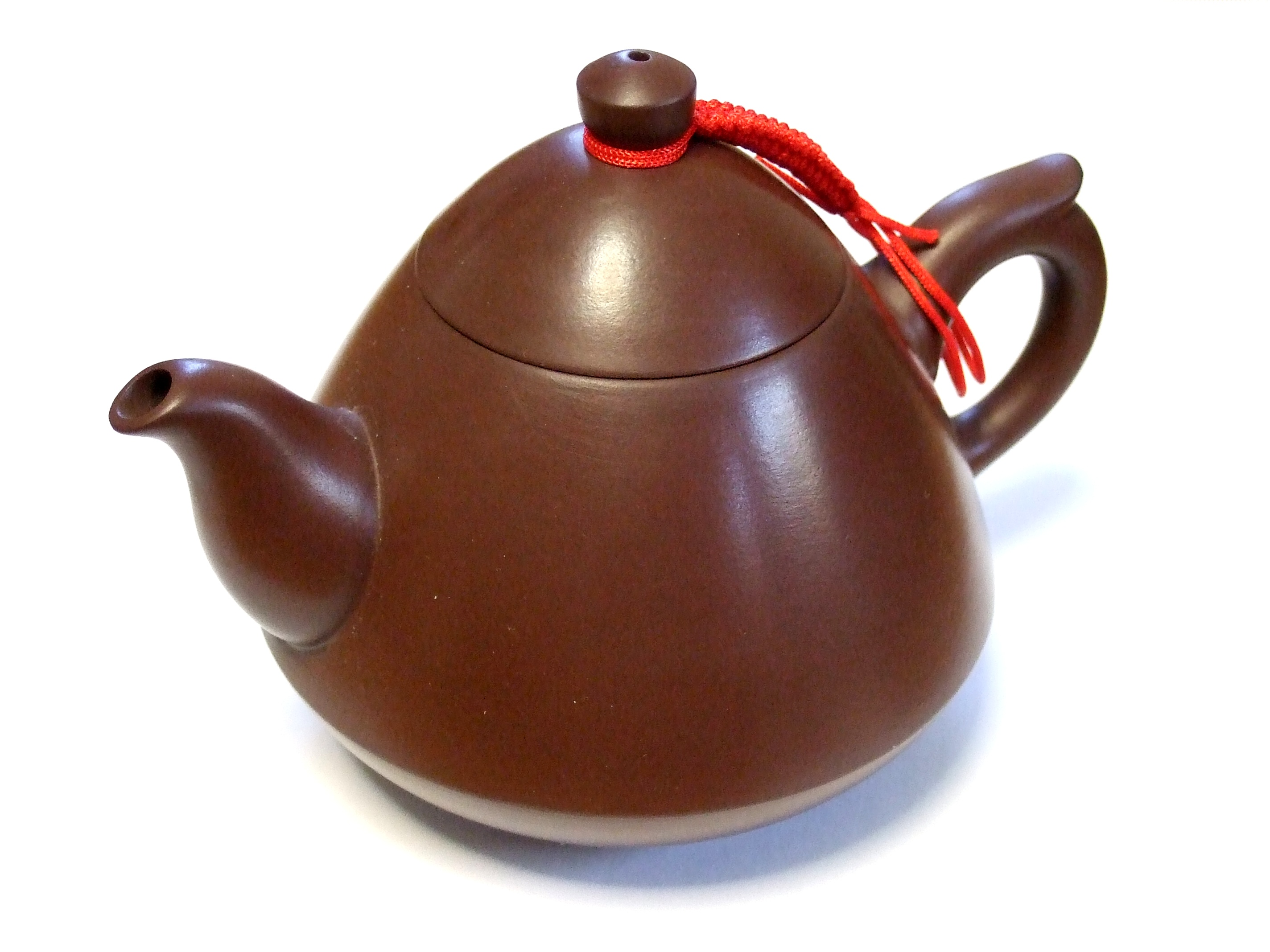 Tea pot found in Kaohsiung Taiwan. Photo taken in Japan.